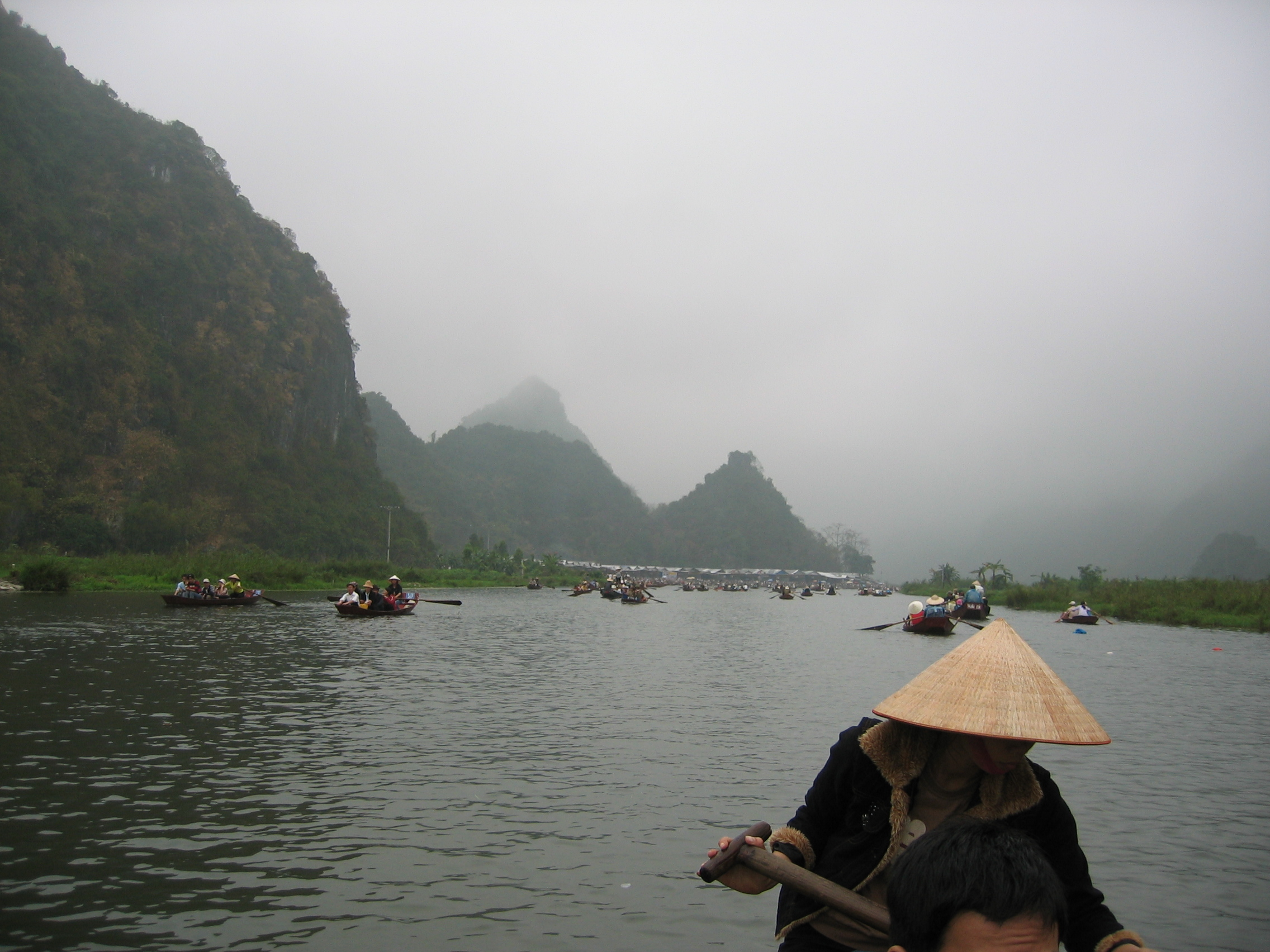 Ngo Dong River, Way to the Tam Coc caves